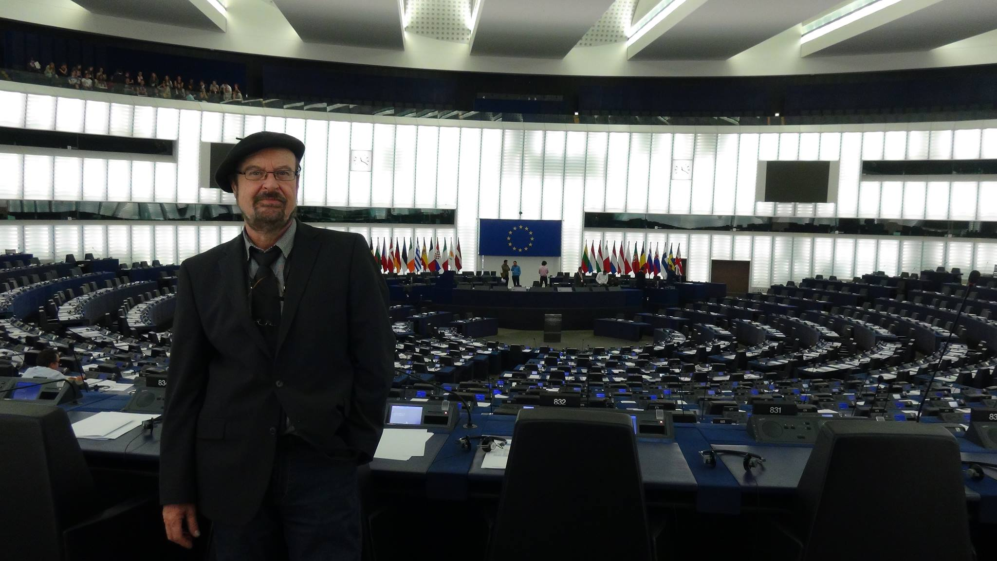 MEP Stefan Bernhard Eck in the plenum of the European Parliament in Strassbourg